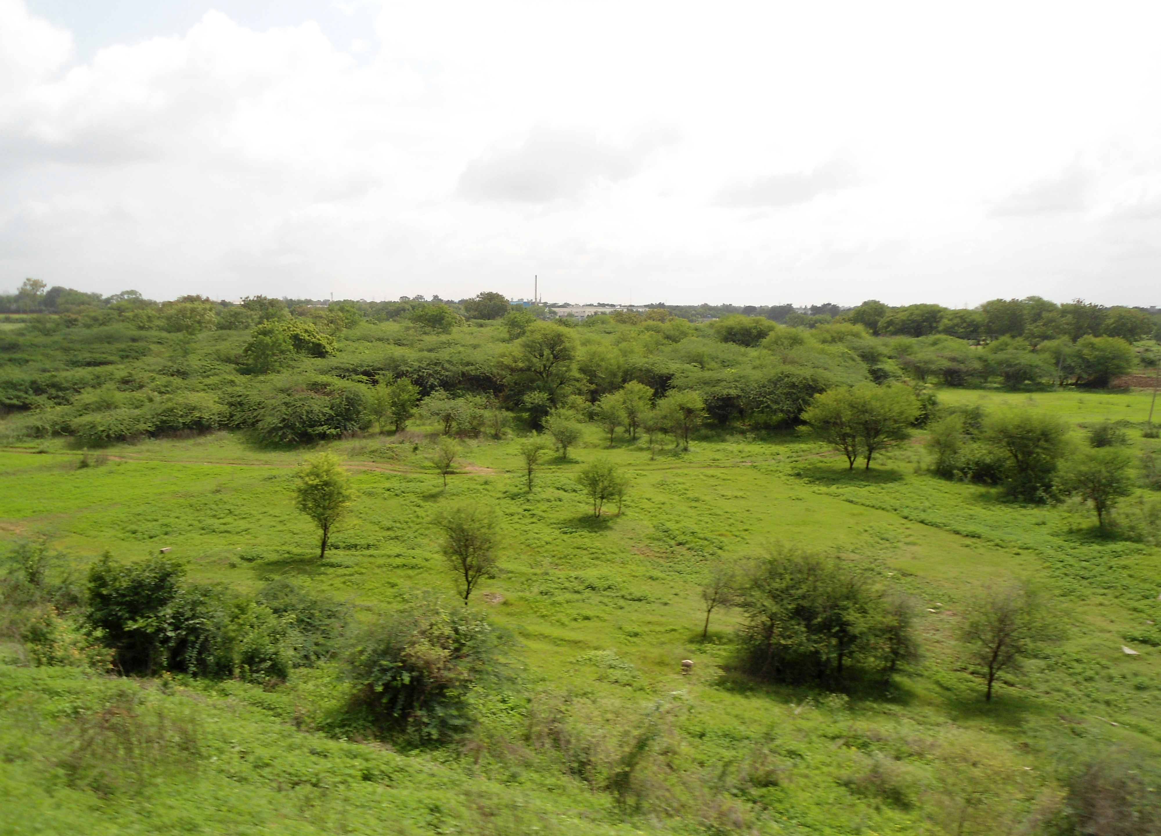 Grasslands near Medchal Town, Rangareddy District, Telangana